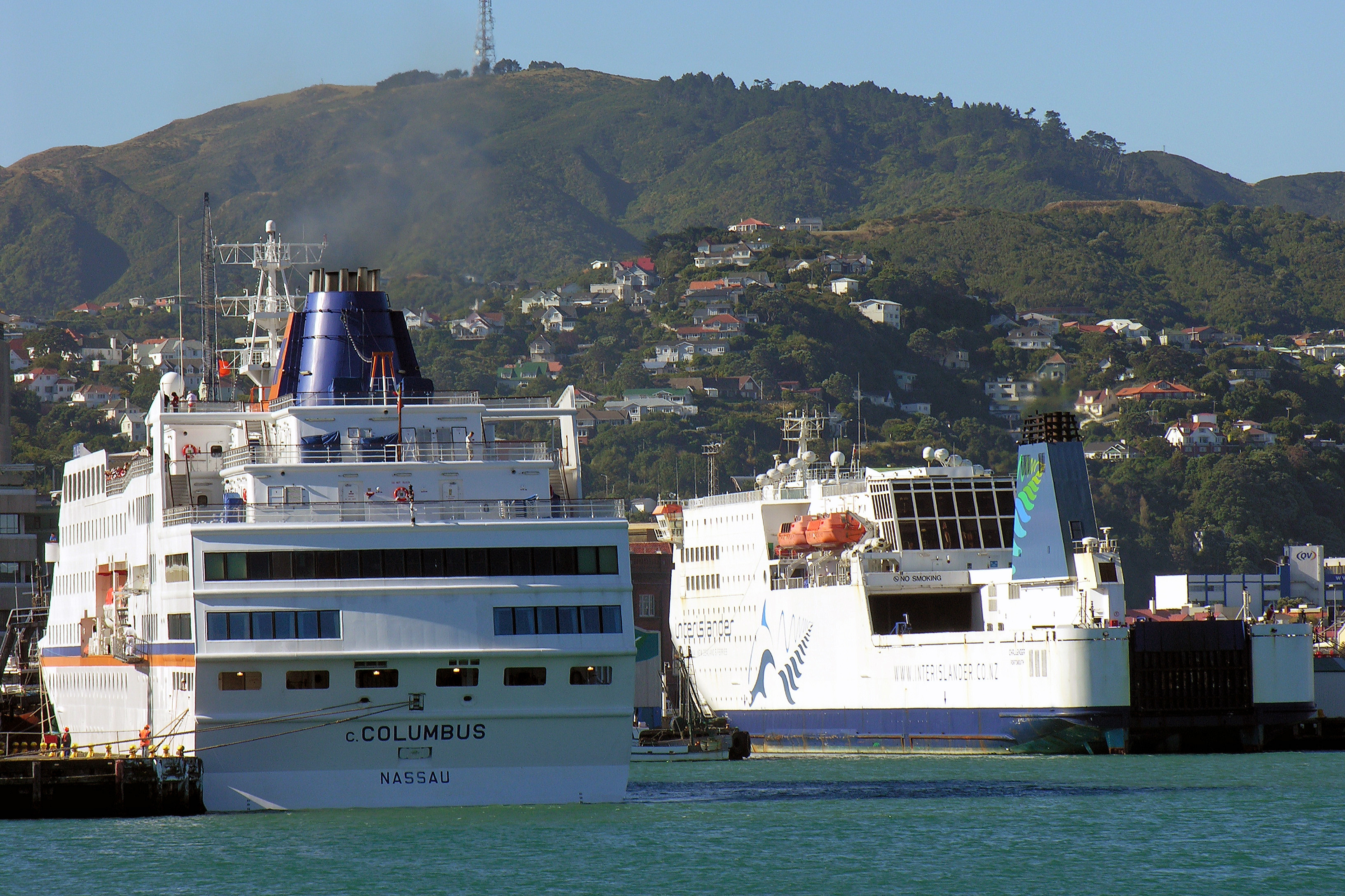 Cruise liner "Columbus" and ferry "Interislander", Wellington, New Zealand, 2006